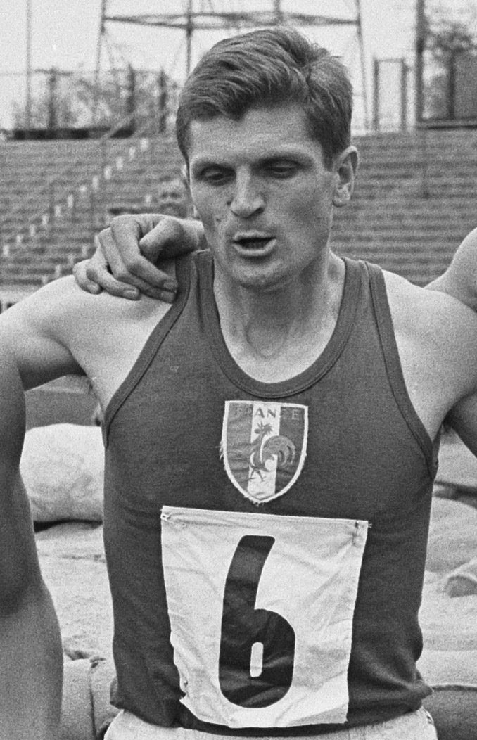 Zes Landen Atletiek (Six Countries Athletics) in Enschede. 100 meters: From left to right. Sergio Ottolina (Italy), Jocelyn Delecour (France) and Peter Gamper (Germany)